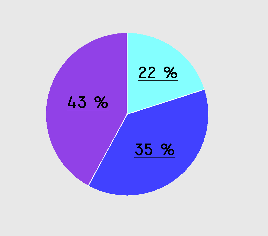 The circular sector diagram.